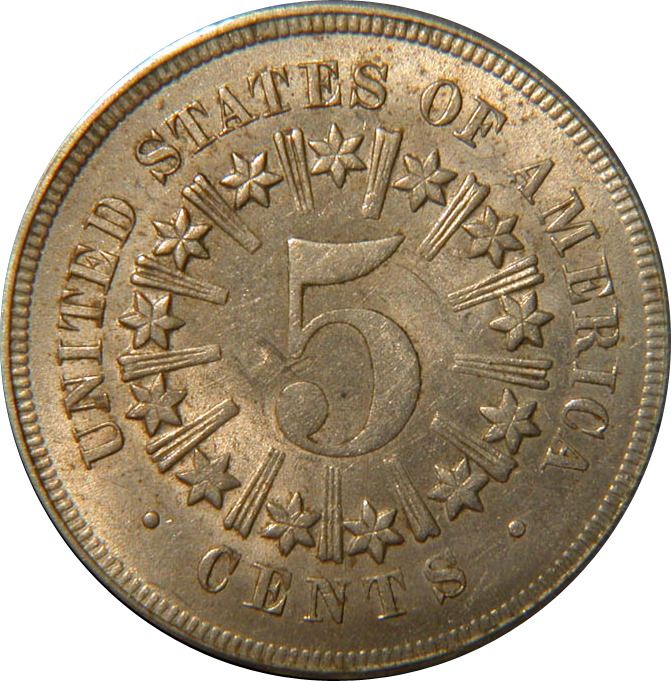 Shield nickel with rays reverse.